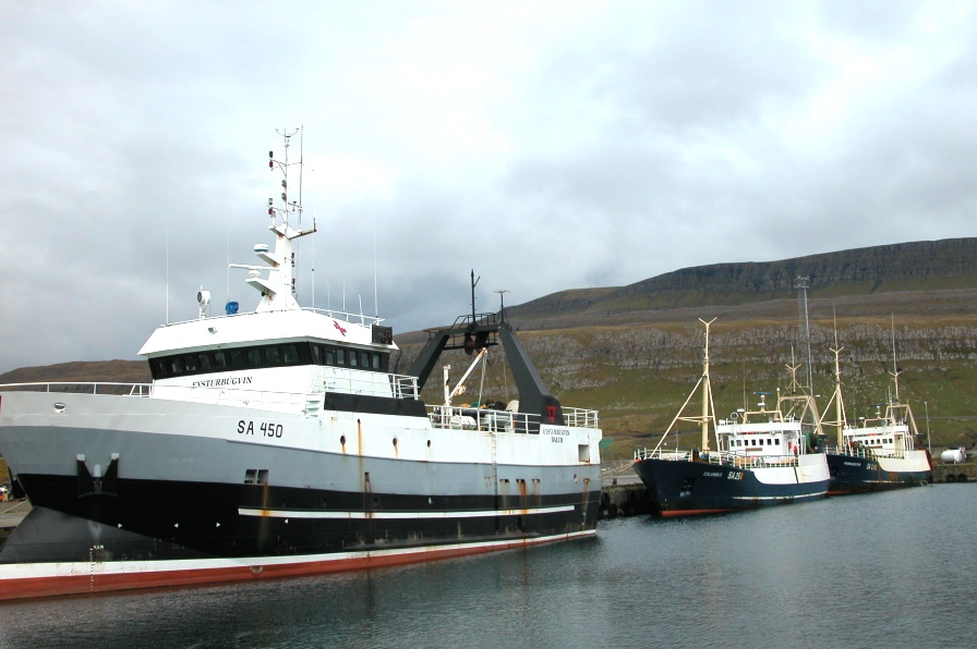 Sandur on the Island of Sandoy, Faroe Islands. Fishing vessels in the harbour. SA450 - EYSTUBÚGVIN